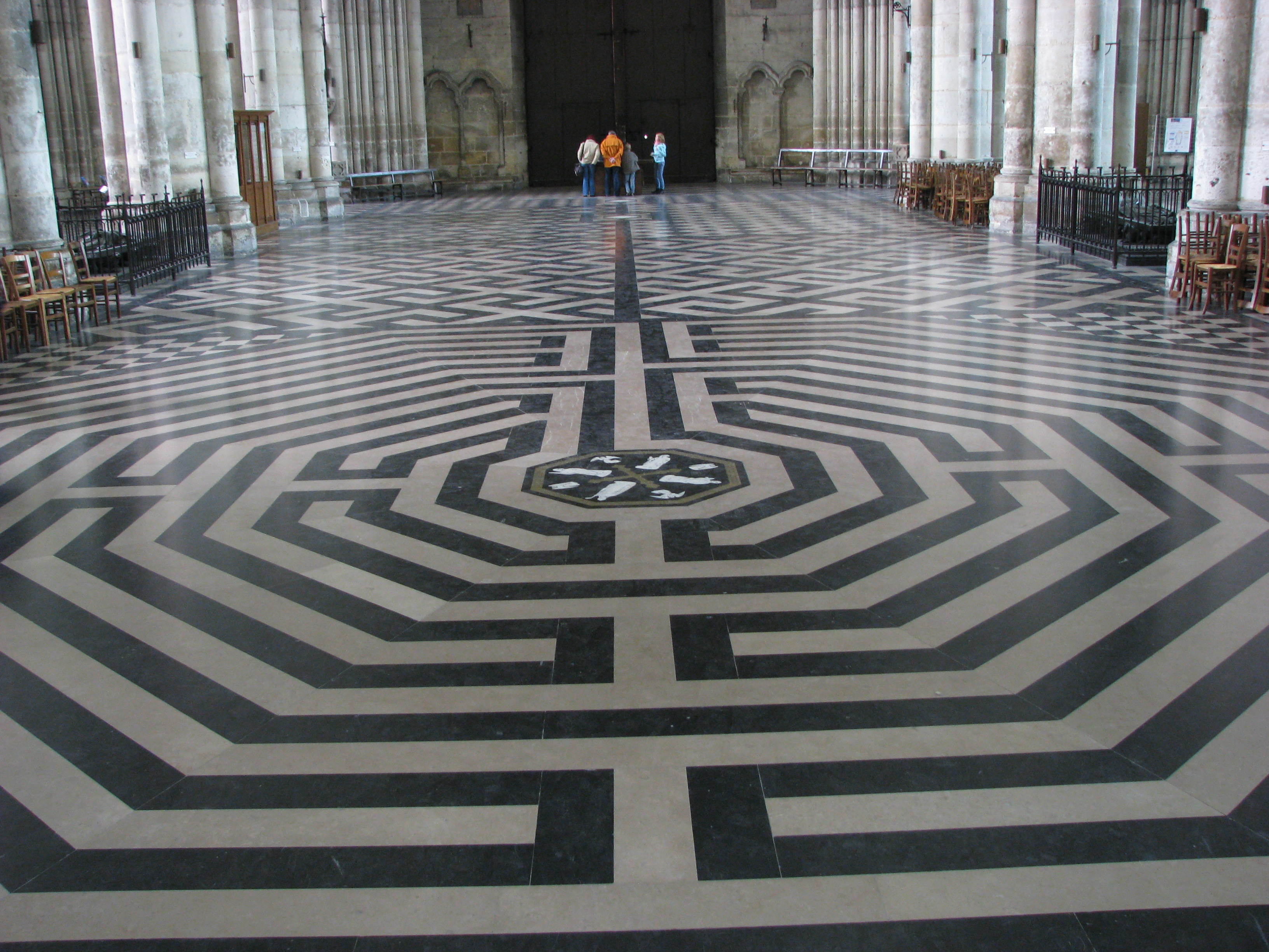 Amiens Cathedral, France, Labyrinth